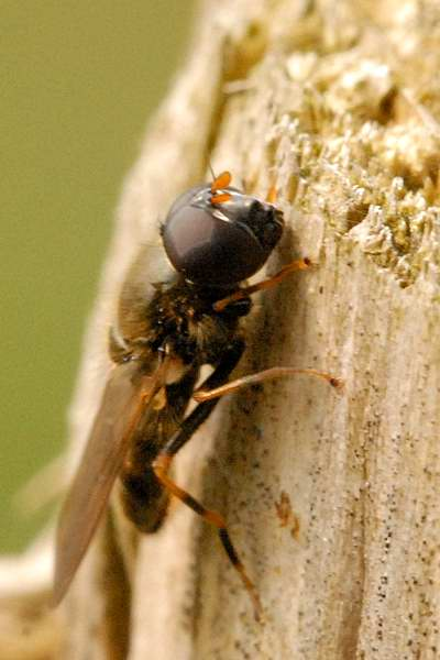 Cheilosia pagana from Commanster, Belgian High Ardennes .